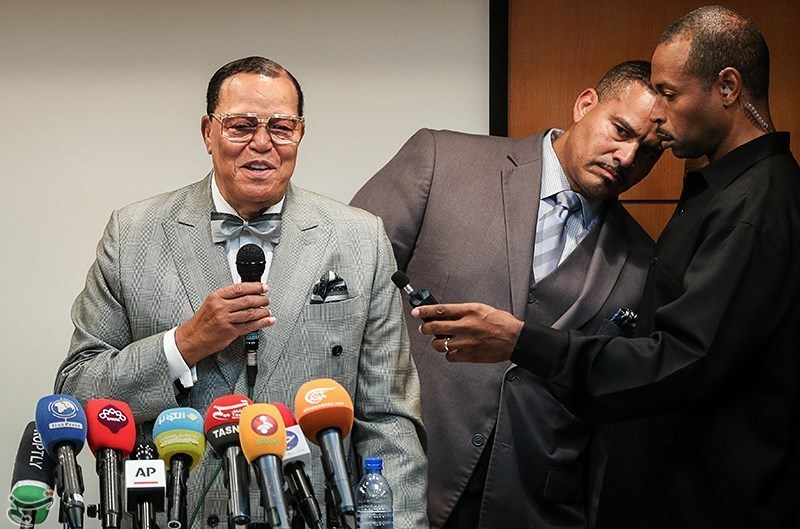 News Conference of Louis Farrakhan the Leader of the Muslim American Movement in the conference hall of Press TV channel, 8 November 2018.